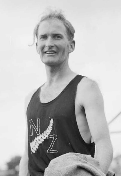 New Zealand Harold Nelson after 6-miles race, 1950 British Empire Games, Auckland. Shows him wearing a New Zealand team singlet and carrying a blanket. Photograph taken in February 1950 by an Evening Post photographer.